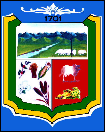 Coat of arms of the Colombian municipality of San Juan del Cesar Public domain. Created in 1701.